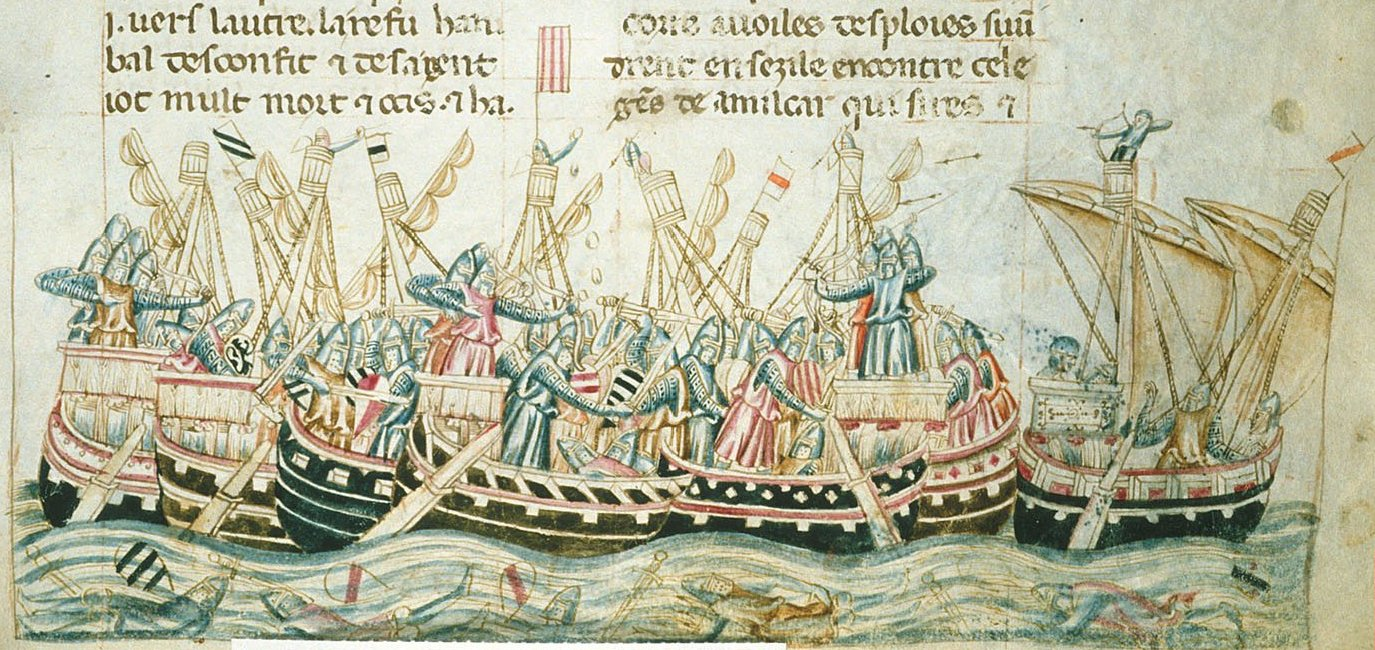 Detail of a bas-de-page miniature of a naval battle. Italy, S. (Naples)